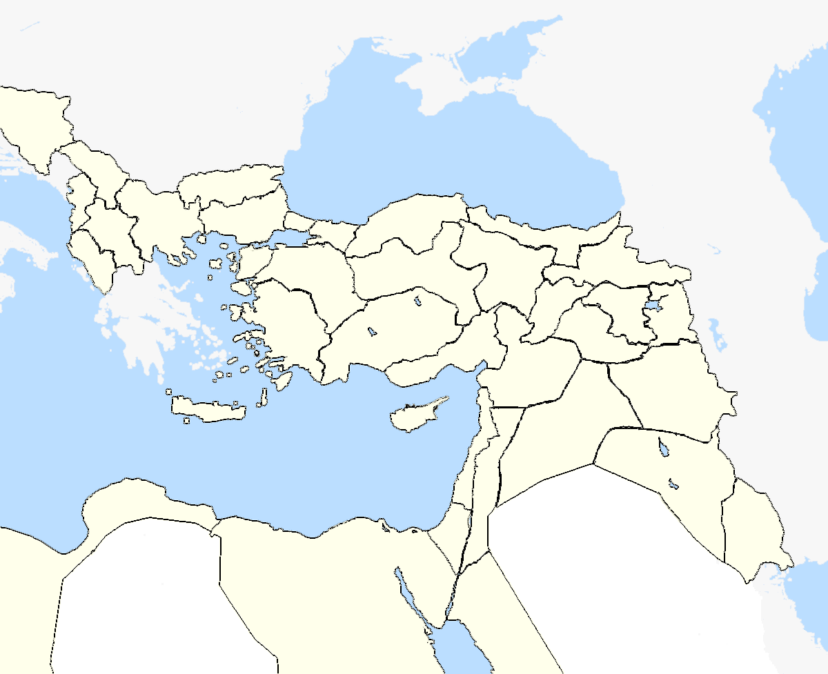 Ottoman Empire, 1900 According to the information of this map: [1]